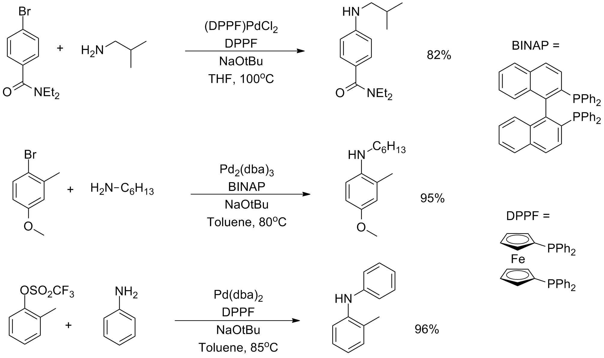 second generation catalyst examples